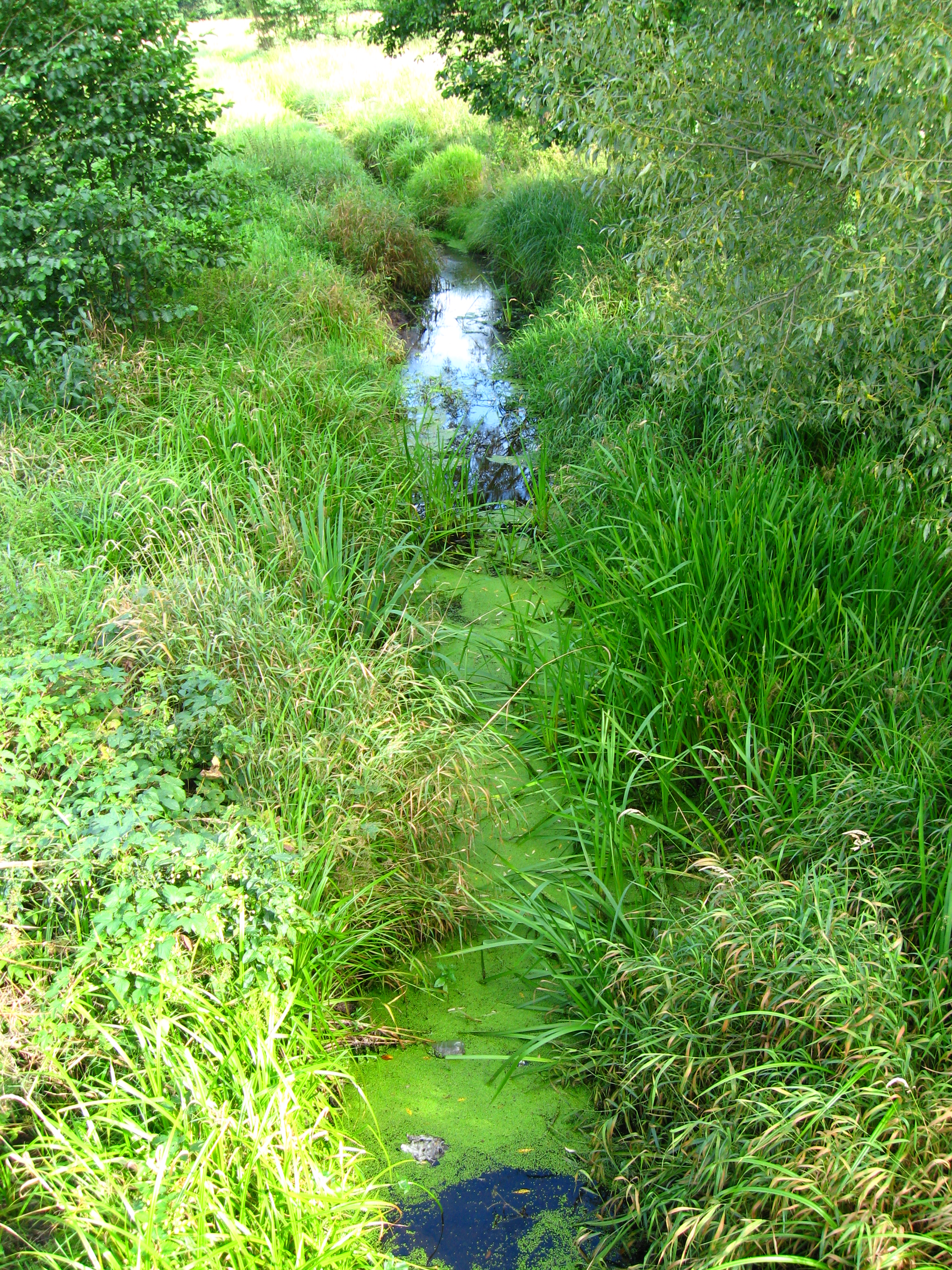 Supraśl river near Mościska village (gmina Michałowo)